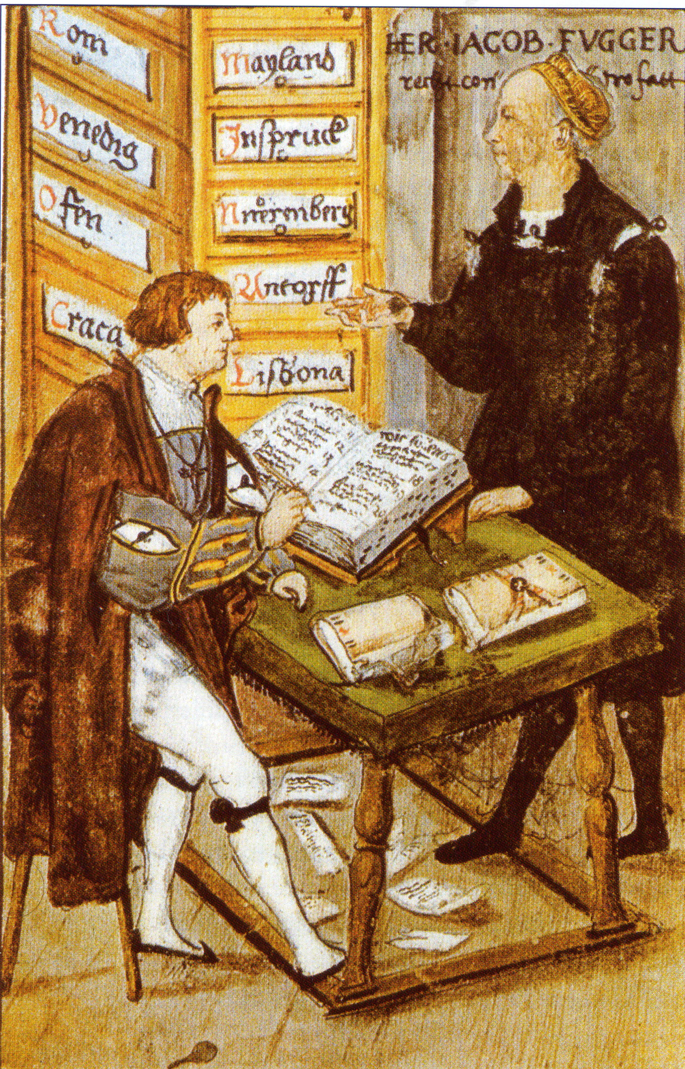 office of Jacob Fugger; with his main-accountancy M. Schwarz